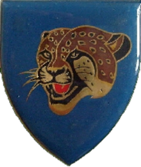 SADF era Bethel Commando emblem